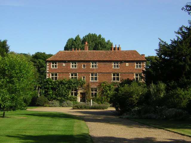 Aubourn Hall. Historic home of the Nevile family, most of the house is from c1600.